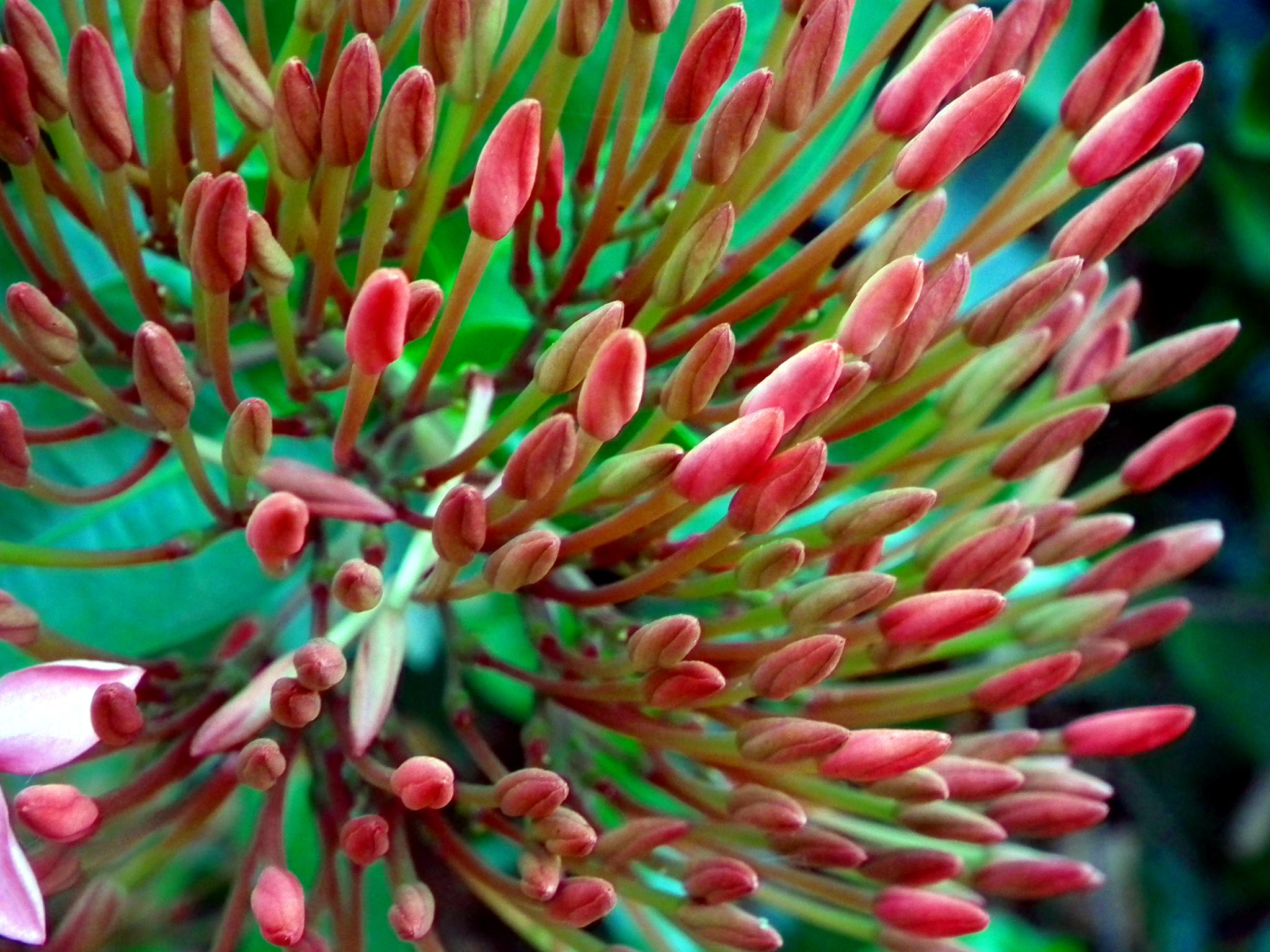 Ixora coccinea, known as the Jungle Geranium, Flame of the Woods, and Jungle Flame, is a common flowering shrub native to Asia. Its name derives from an Indian deity. Although there are some 400 species in the genus Ixora, only a handful are commonly cultivated, and the common name, Ixora, is usually used for I. coccinea.